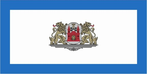 Riga City Council chairman standard